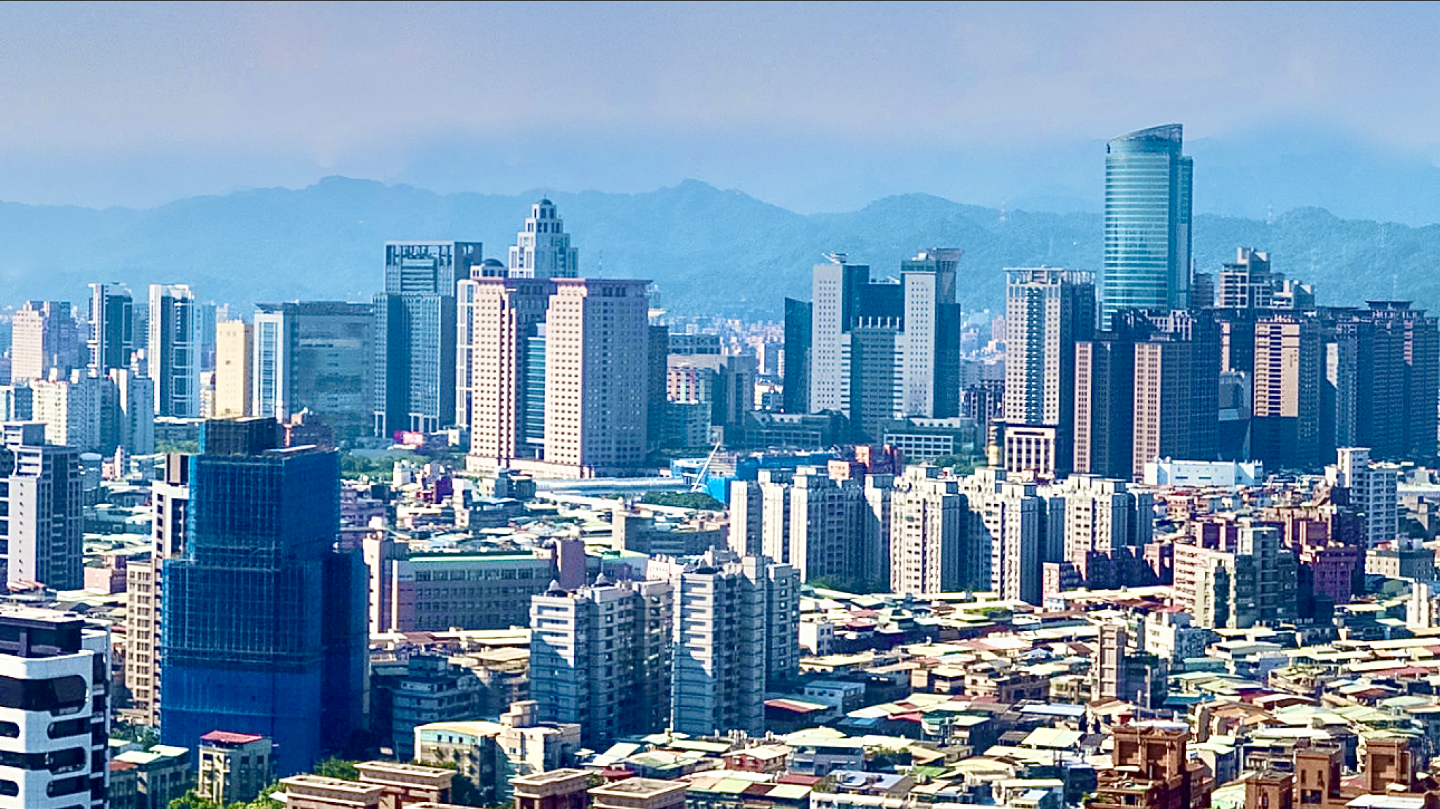 Skyline of Banqiao District, New Taipei, Taiwan taken in 2019